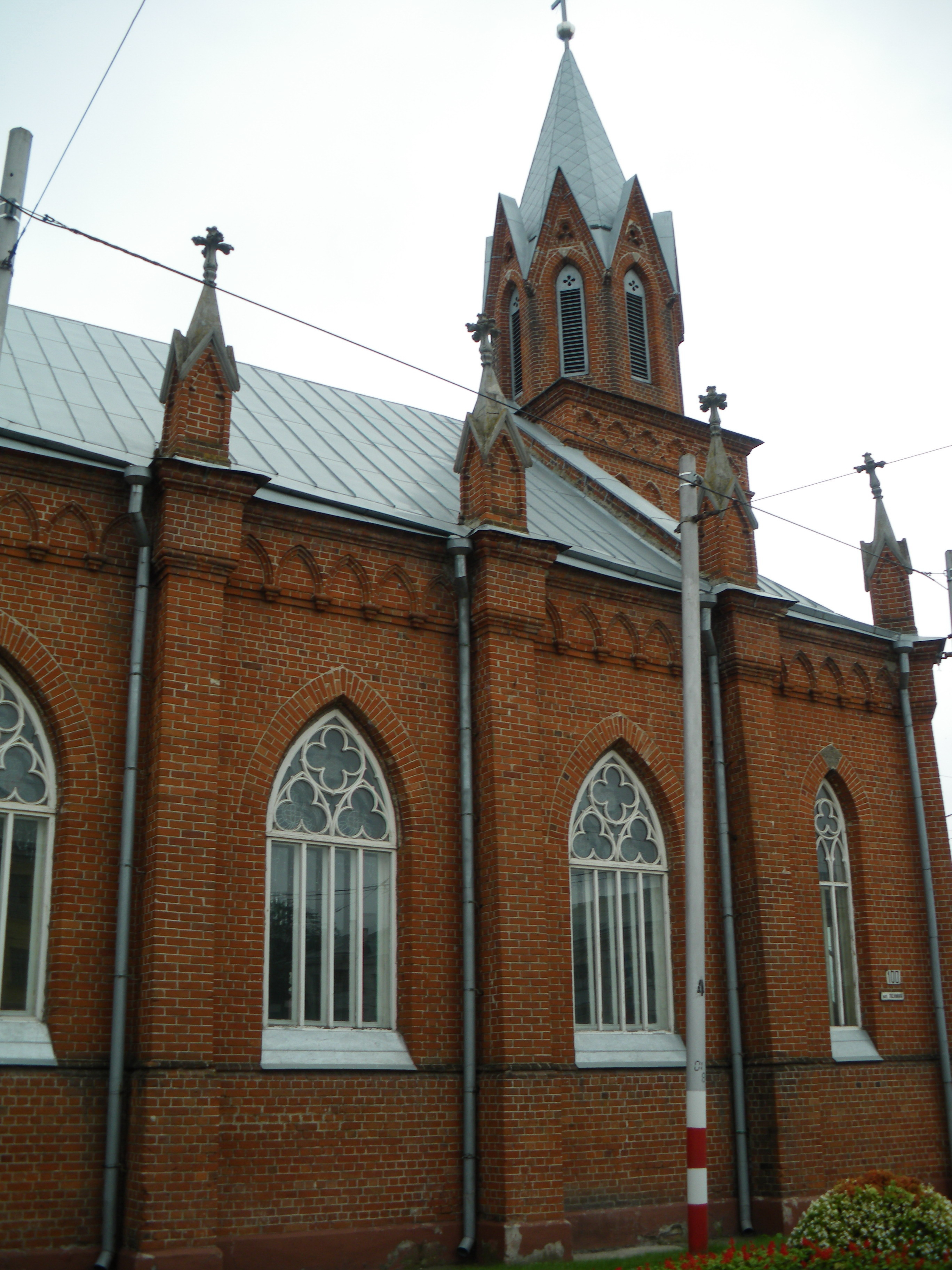 снимок сделан в г. Ульяновск, Лютеранская церковь Святой Марии